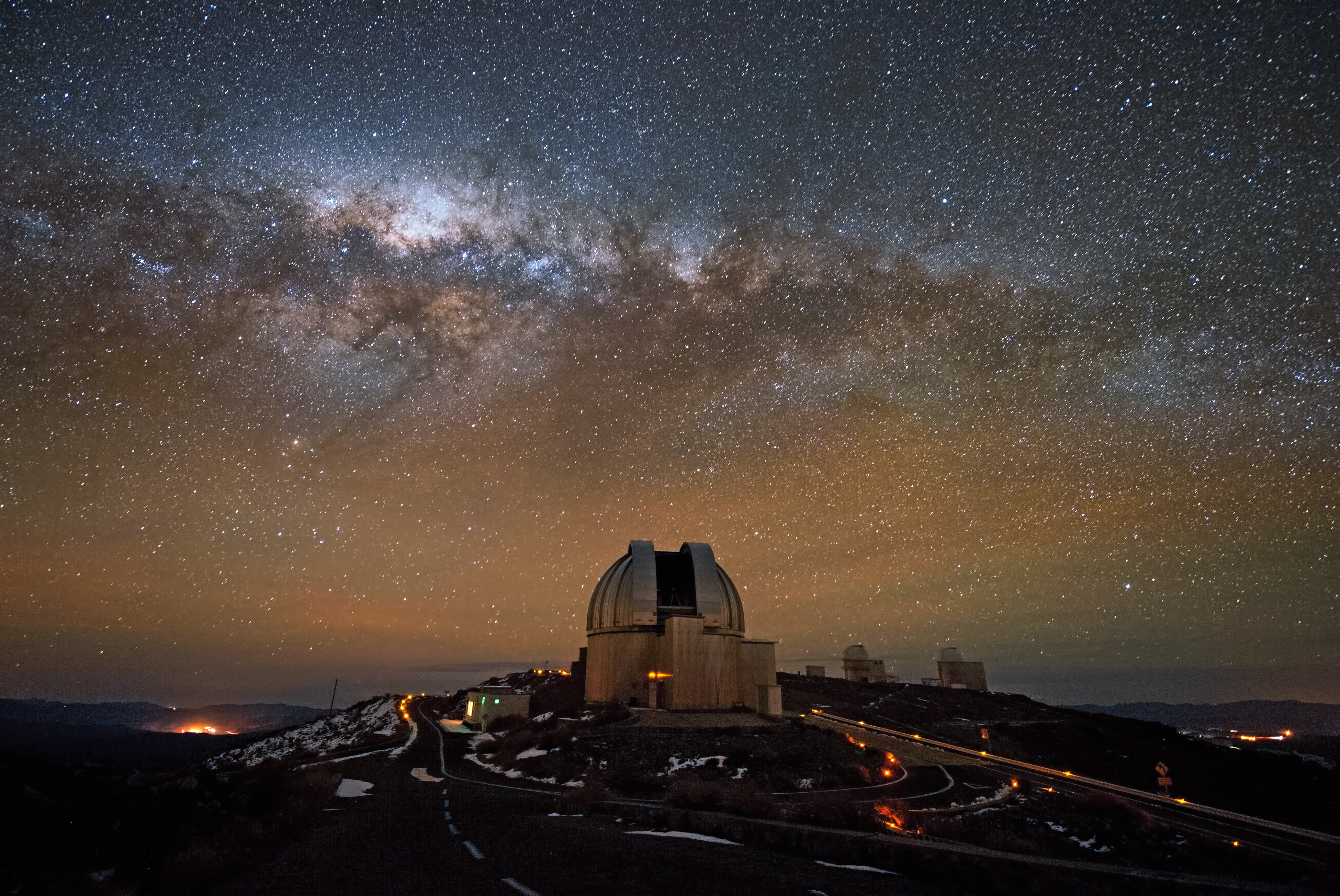 The splendours of the southern sky can truly be appreciated from the La Silla ridge. The MPG/ESO 2.2-metre telescope is seen in the foreground.